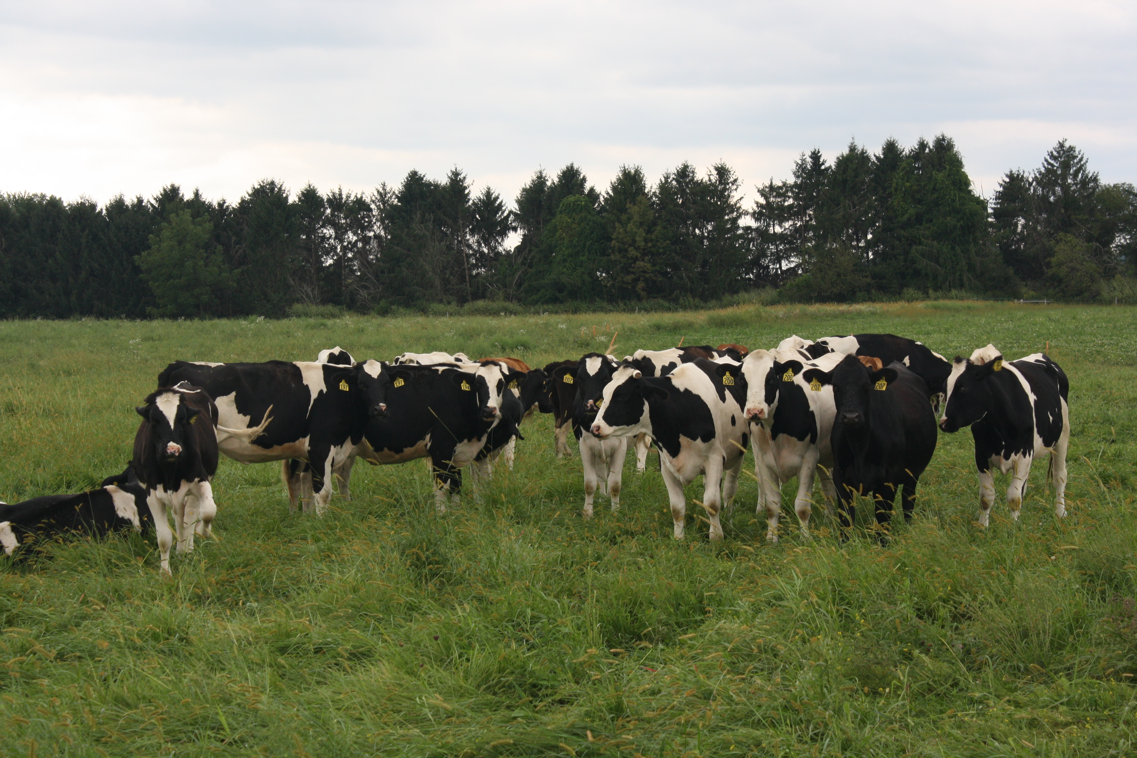 Pasture at Rodale Institute (Siegfried's Dale Farm), Maxatawny Township, Berks County, Pennsylvania.